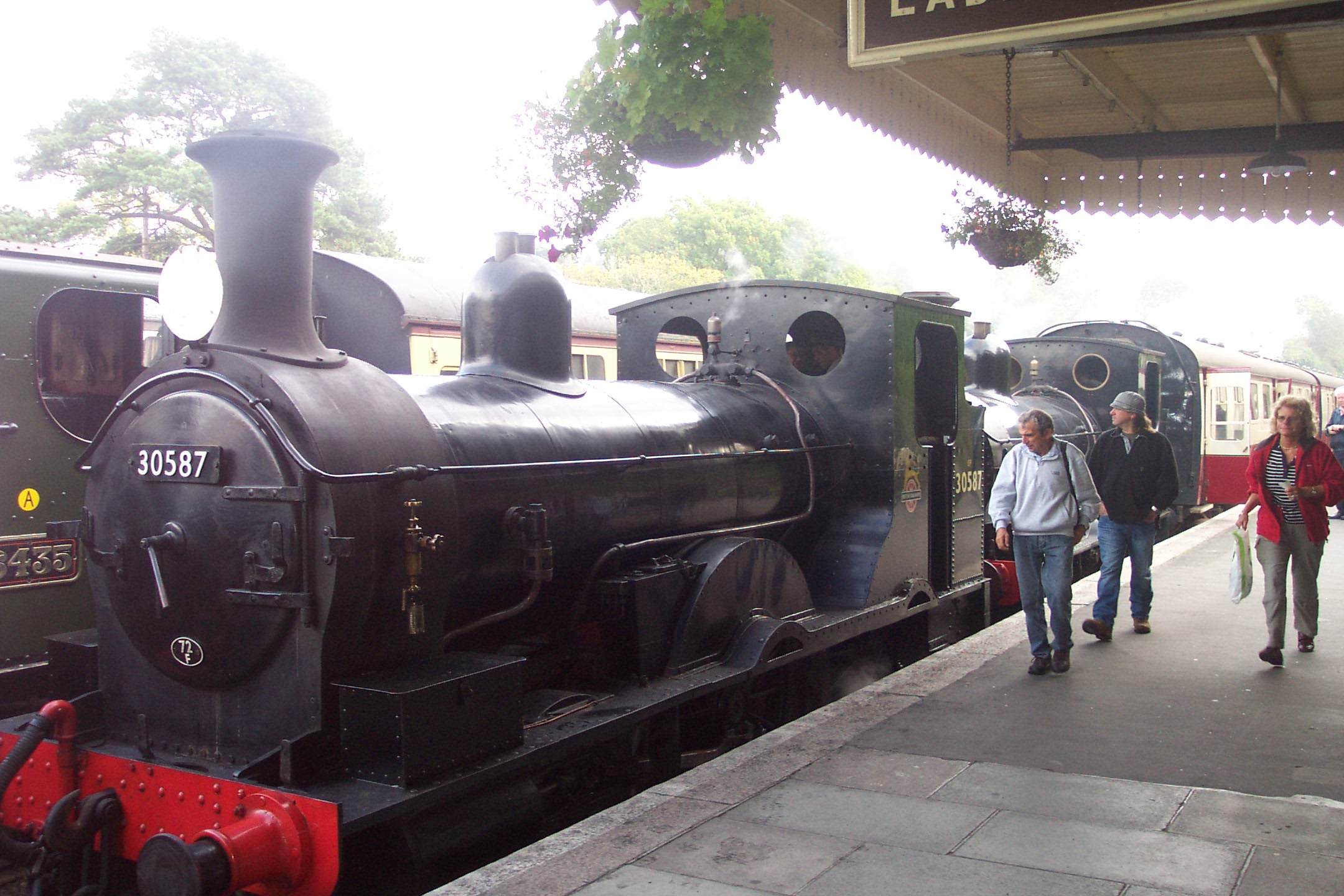 Both preserved members of the LSWR 0298 class working a train into Bodmin General station on the Bodmin and Wenford Railway. For more information, see Wikipedia articles LSWR 0298 Class, Bodmin General railway station or Bodmin and Wenford Railway.